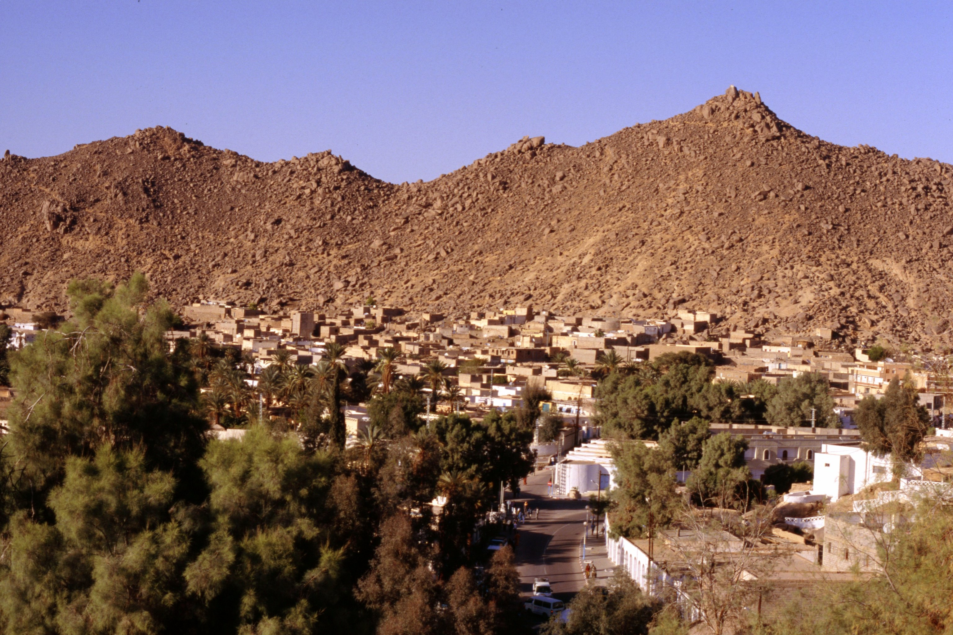 View of Djanet in the wilaya of Illizi (Algérie)